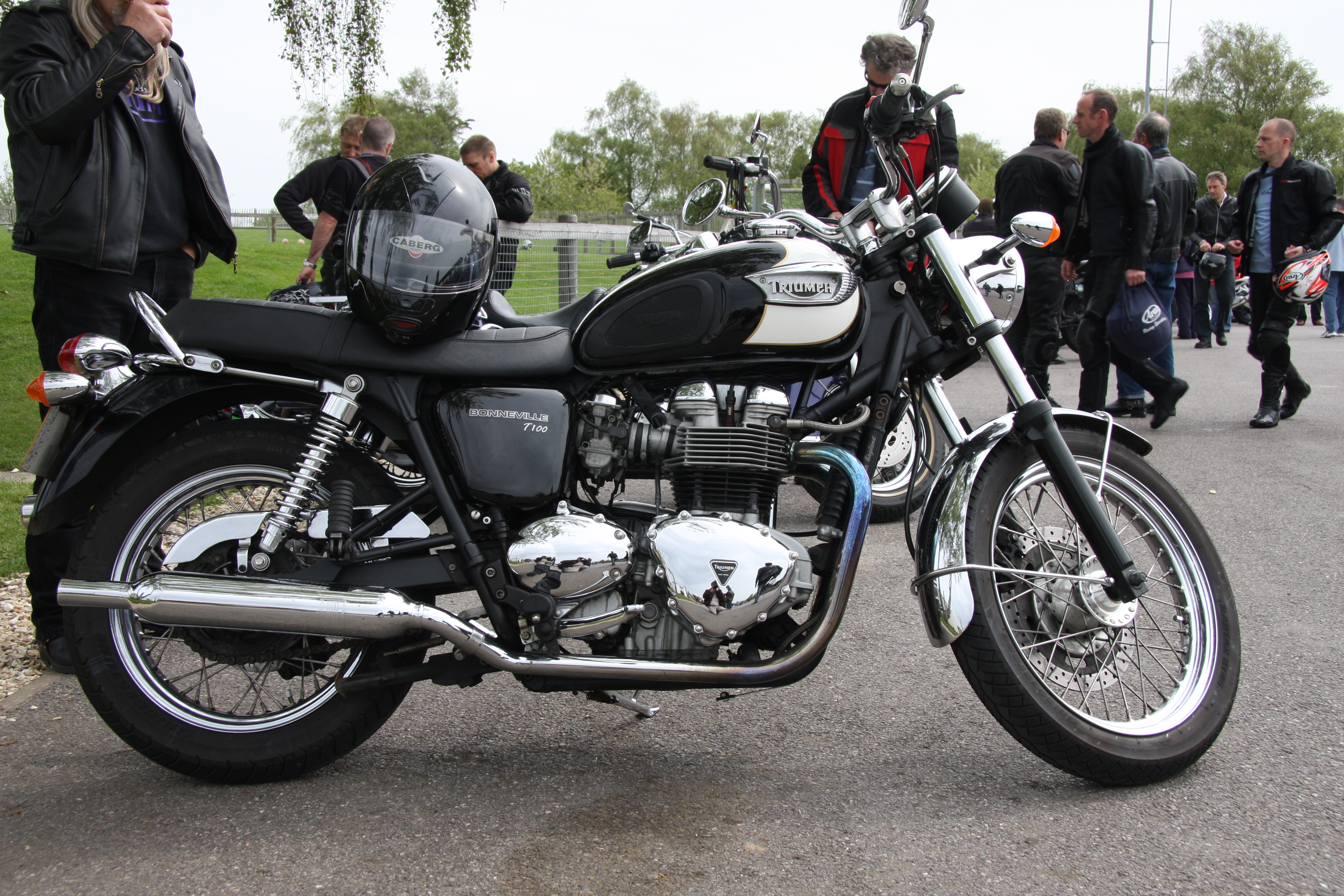 Triumph Bonneville T100